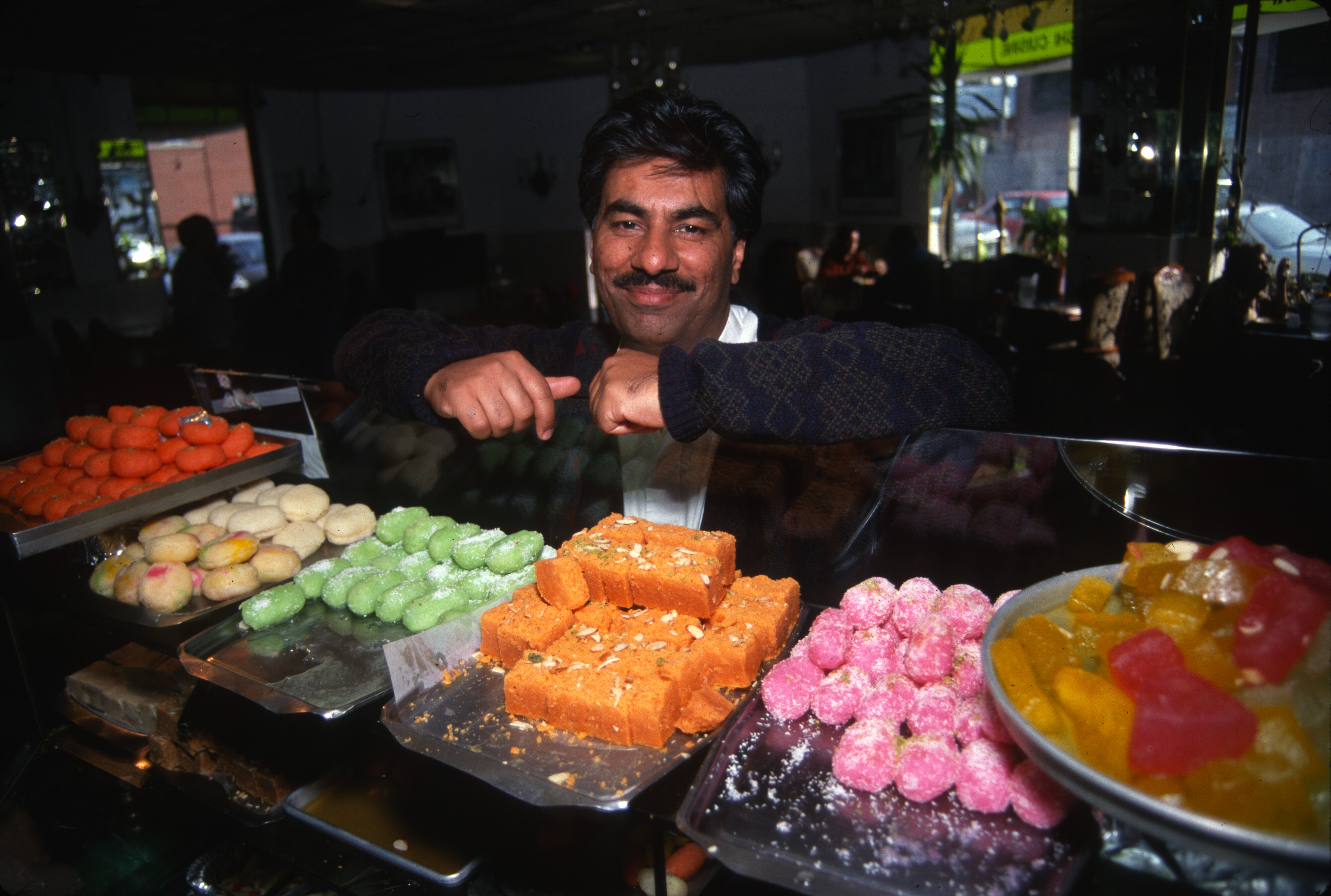 Tariq Hanad